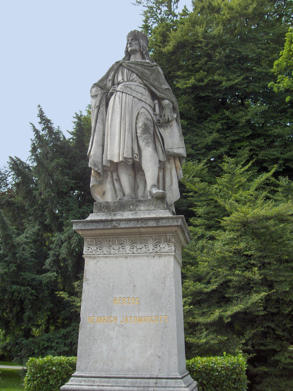 Duke Heinrich Jasomirgott, better known as Henry II, Duke of Austria